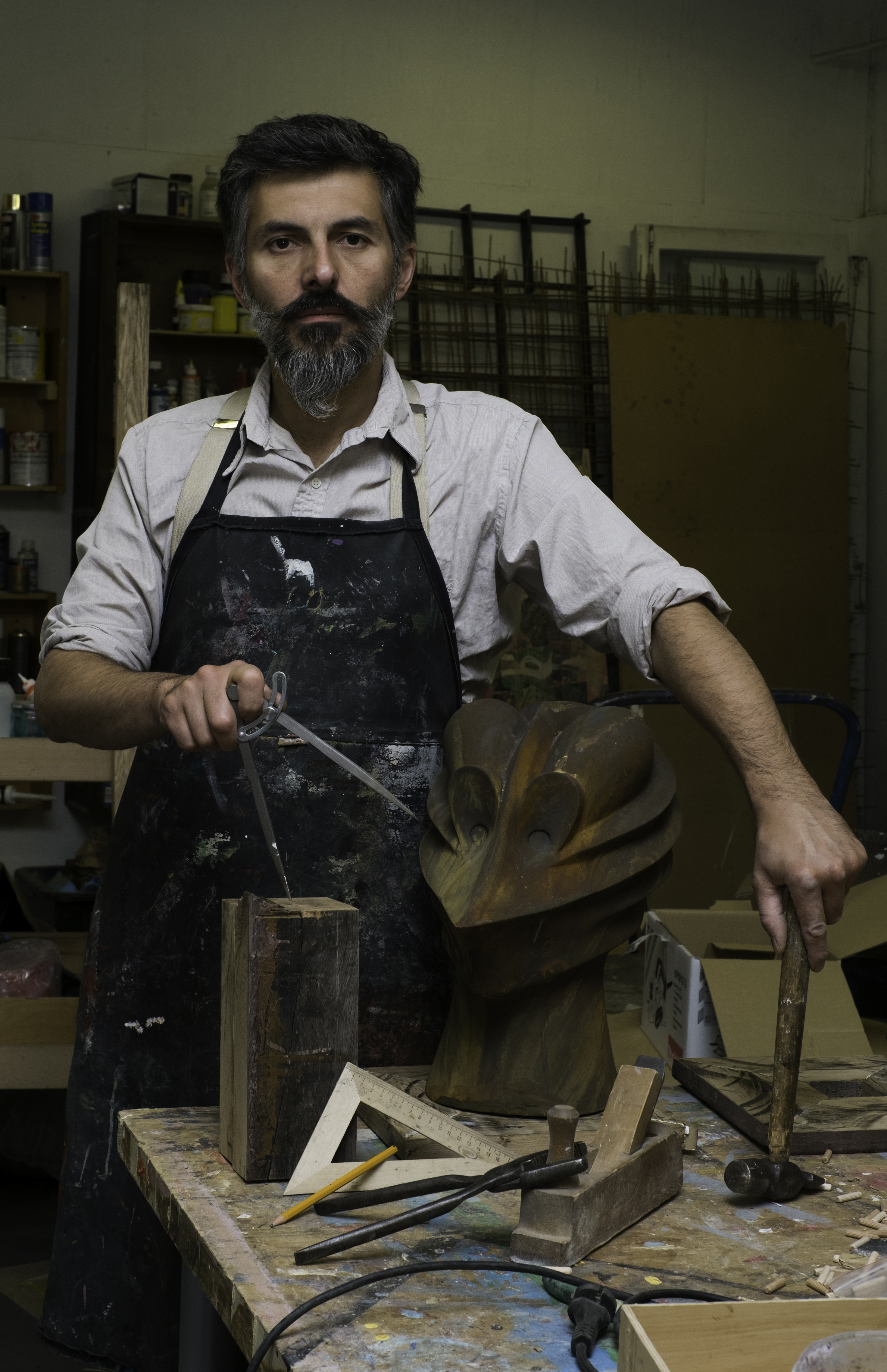 Gosha Ostretsov by A.Bezukladnikov